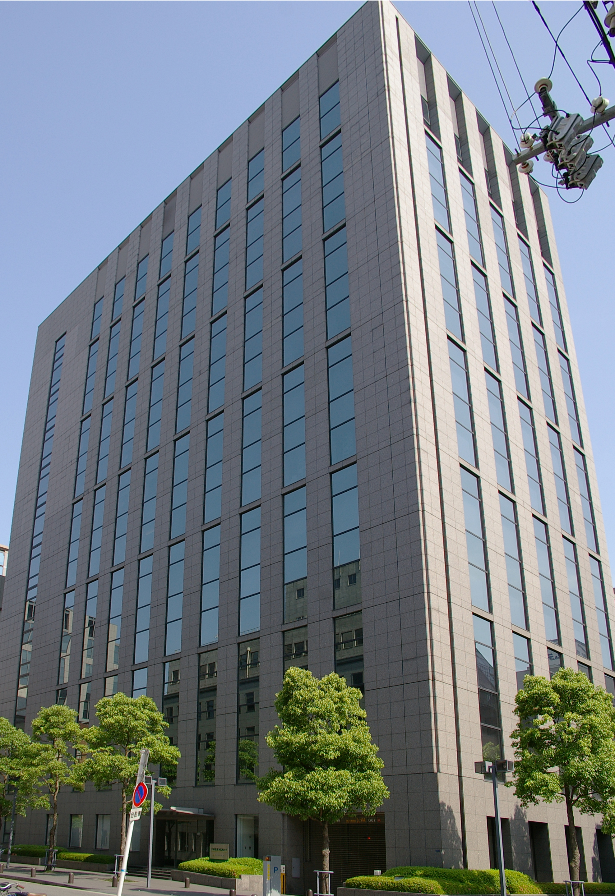 Photograph of Ginsen Yodoyabashi Building, Osaka head office of Sumitomo Mitsui Card, in Chuo-ku, Osaka, Osaka Prefecture, Japan.